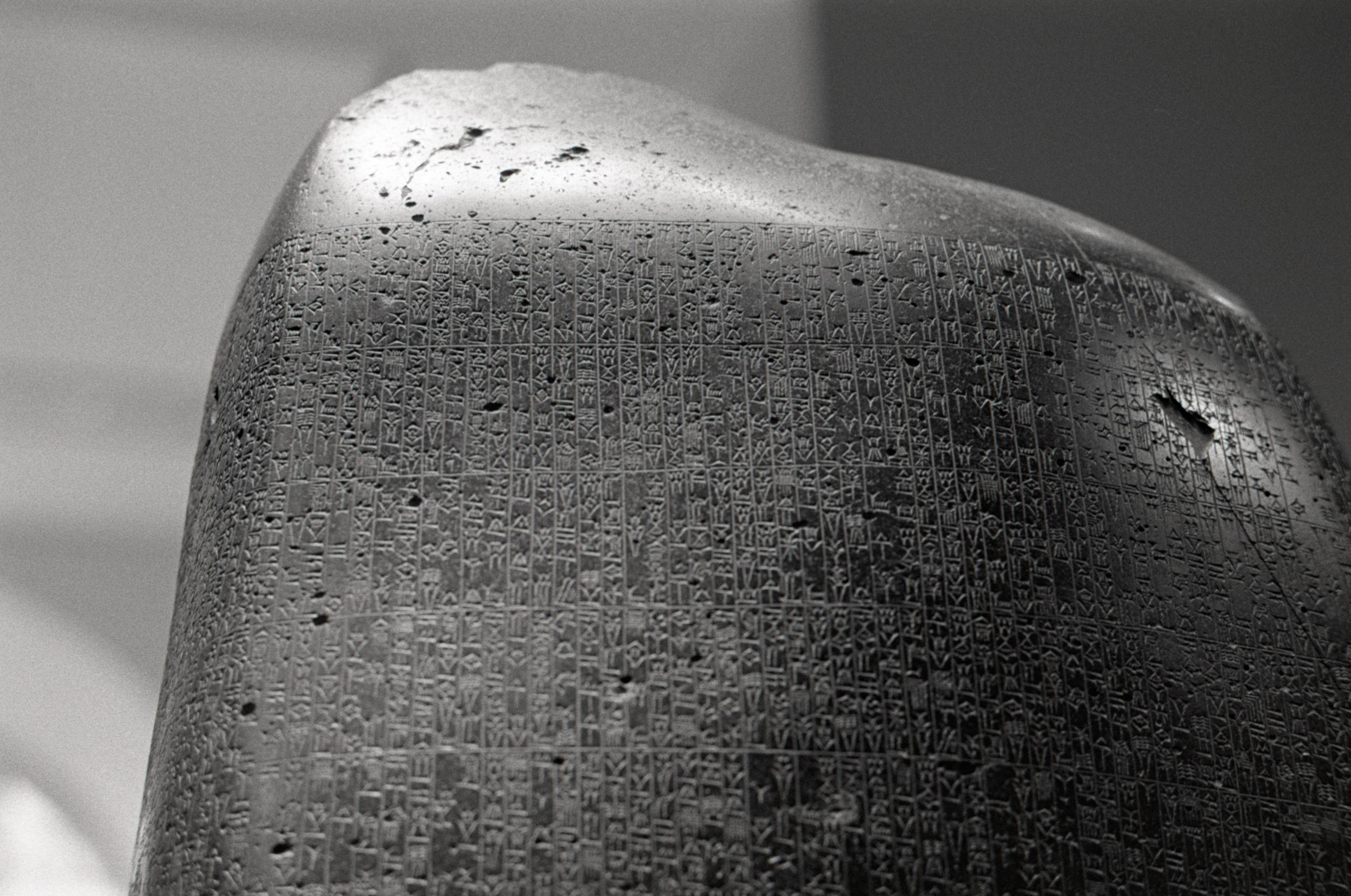 Code of Hammurabi